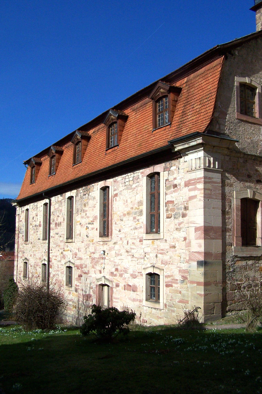 The eastern front.